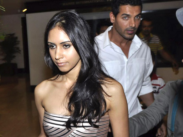 John abraham priya marwah